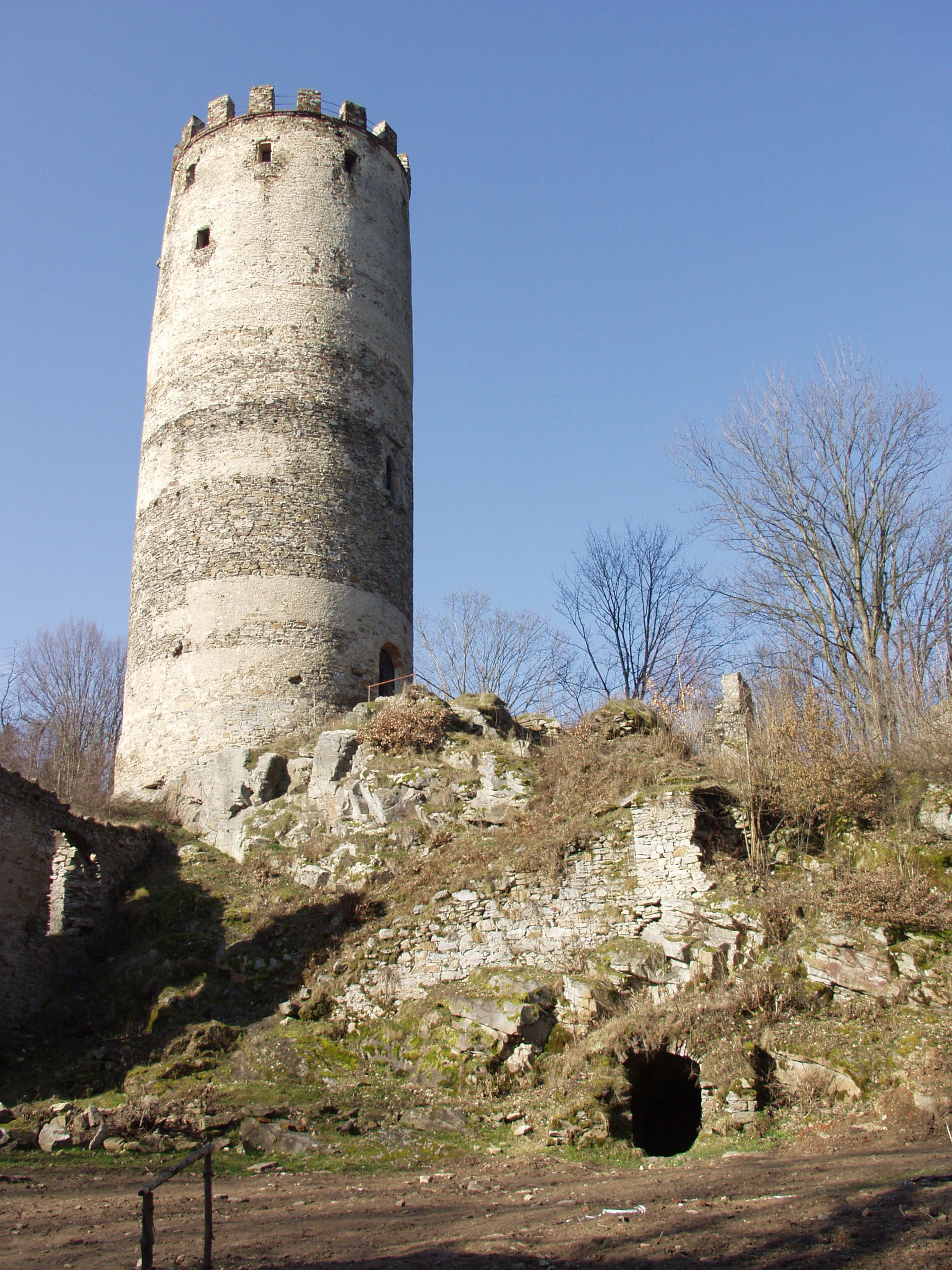 Tower of Šelmberk Castle ruin, Tábor District, Czech Republic.